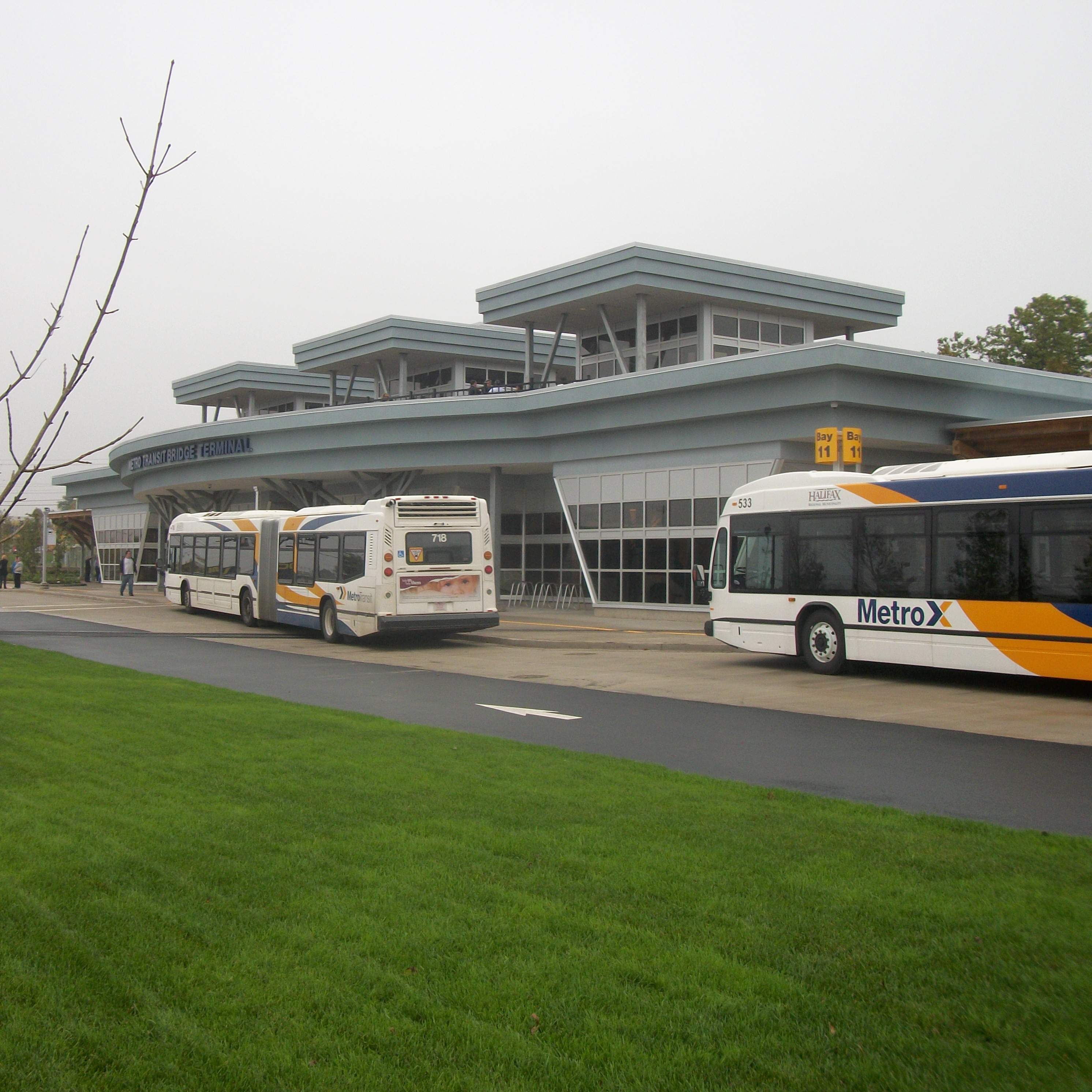 New transit terminal in Dartmouth, constructed at a cost of 14.7 million, it serves 20,000 people per day.